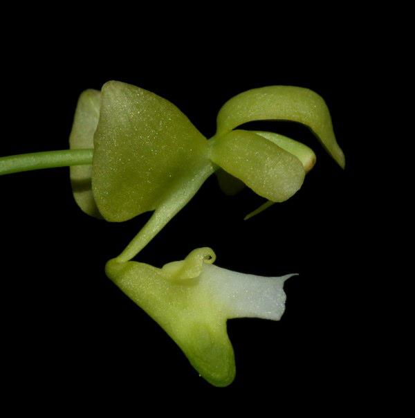 Macro shot of Macropodanthus cootesii, Photo taken from the garden of Raab Bustamante in Nabaoy, Malay Aklan, The Philippines